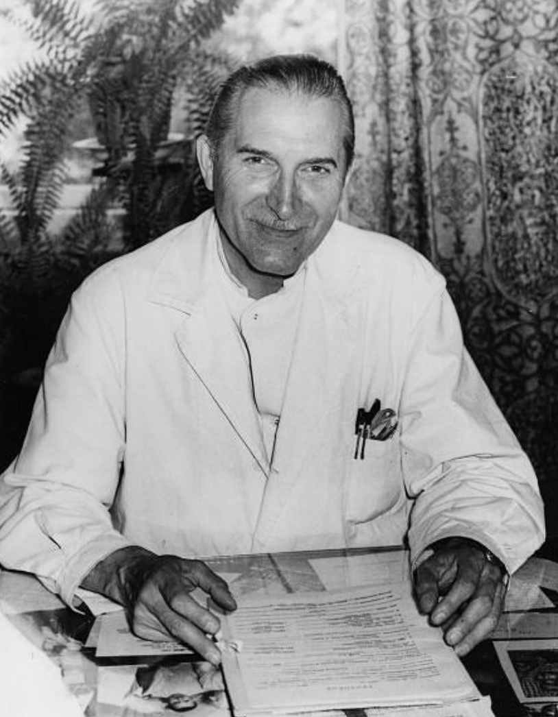 Prof. Jan Witold Moll at the office